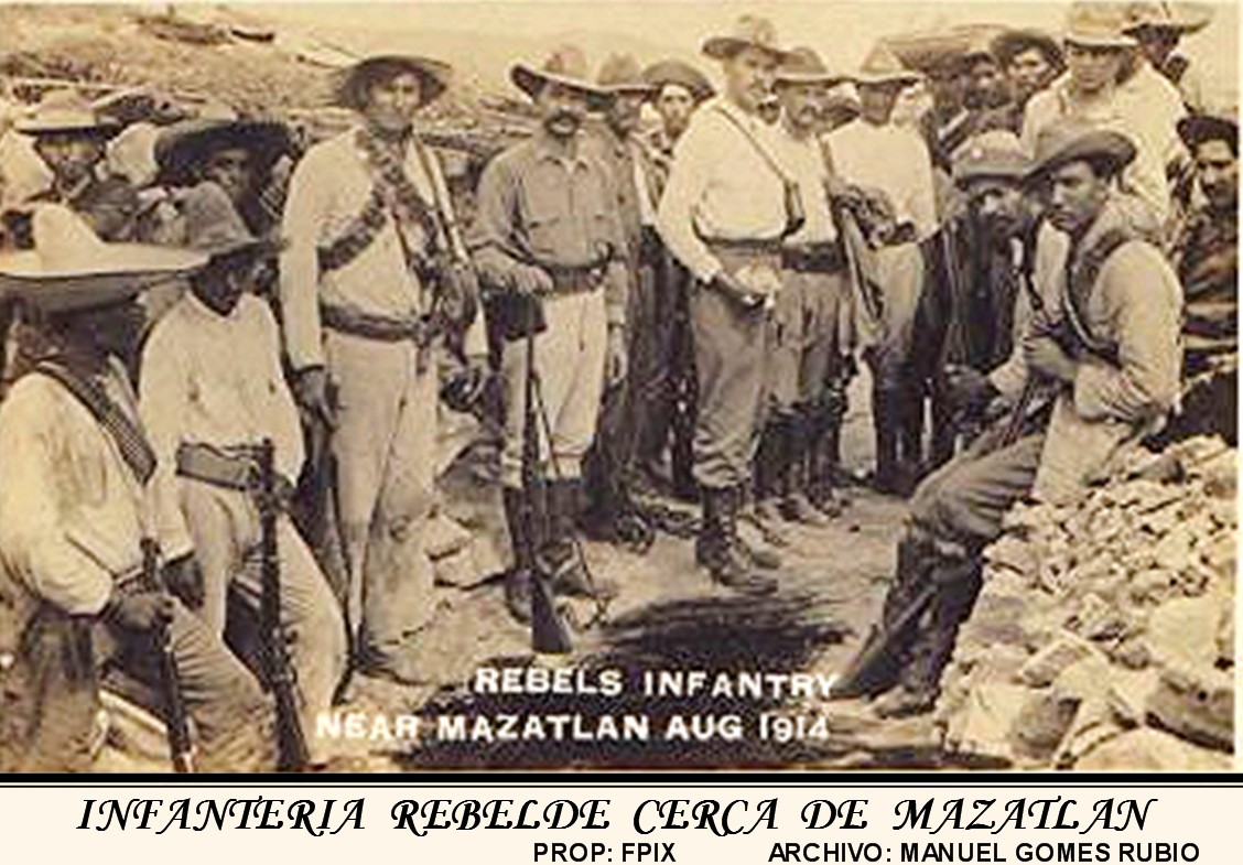 Mazatlán Antiguo